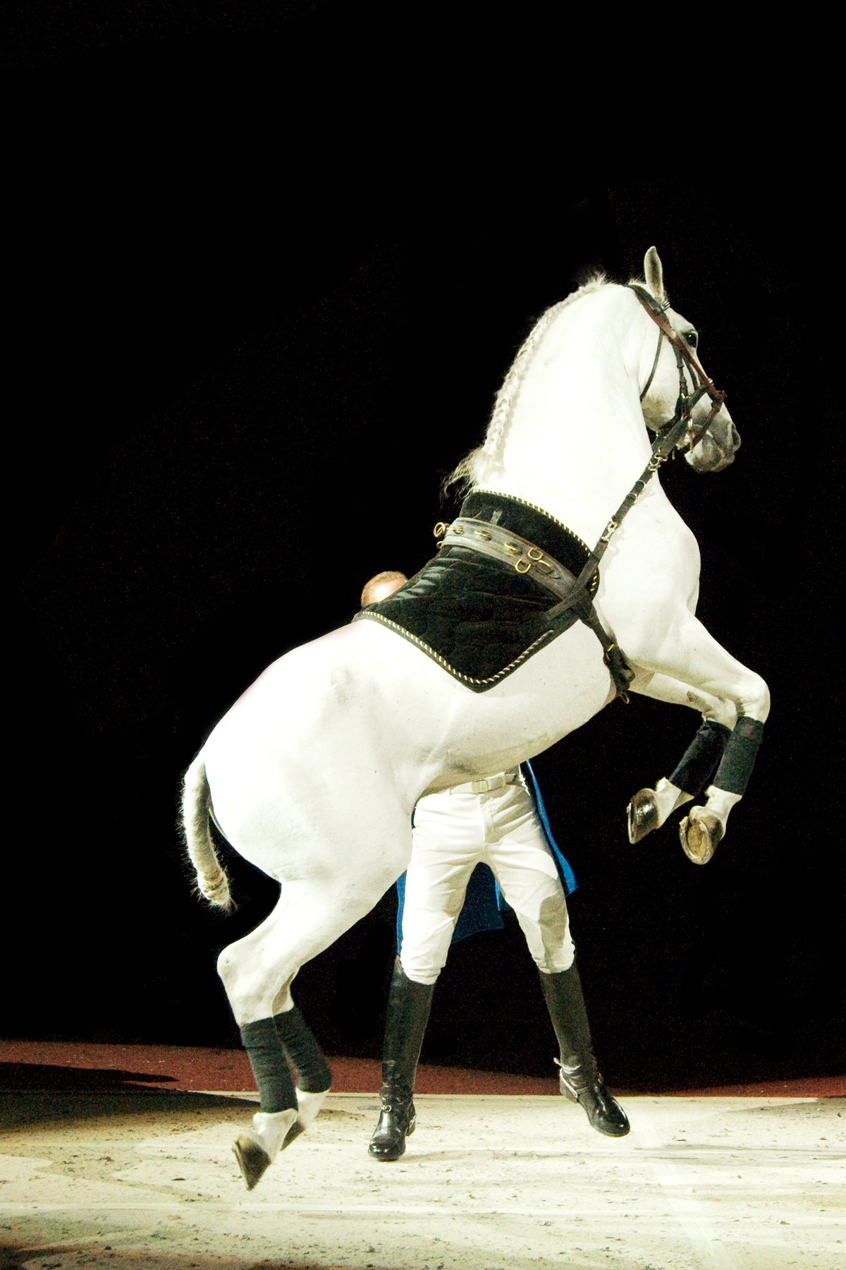 Modestly airborn